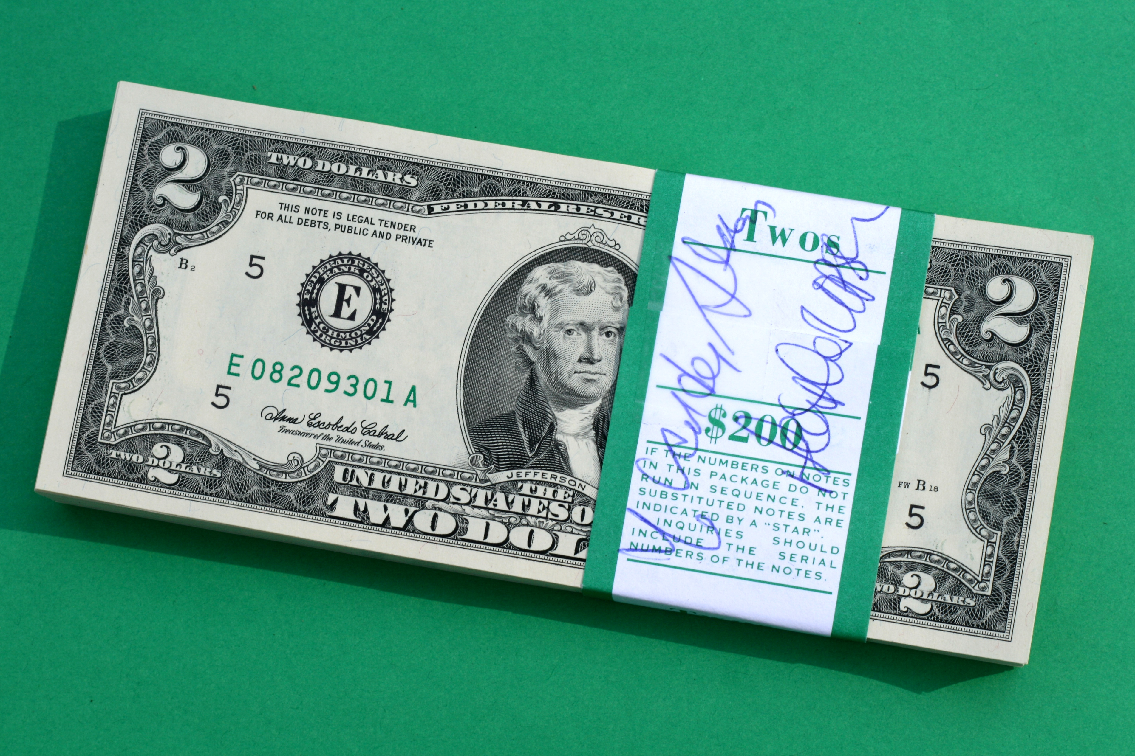 A strap of one hundred previously uncirculated 2003A series U.S. $2 bills acquired from a bank.